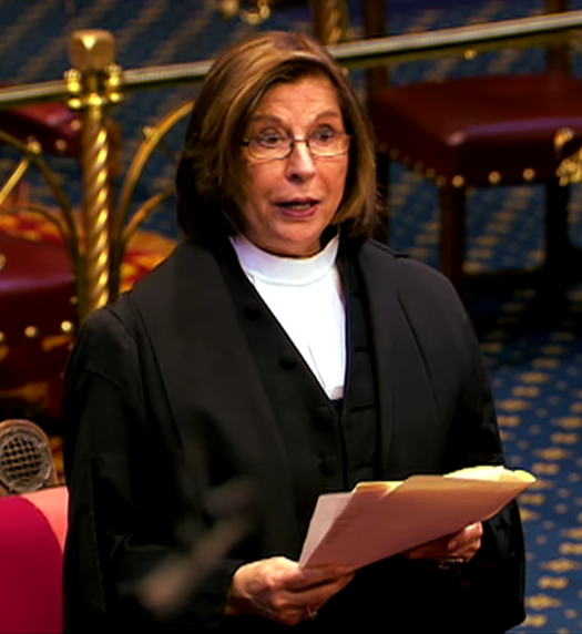 The Right Honourable Frances Gertrude Claire D'Souza, Baroness D'Souza, Companion of the Most Distinguished Order of Saint Michael & Saint George, Member of Her Majesty's Most Honourable Privy Council, presides over a sitting of the House of Lords.